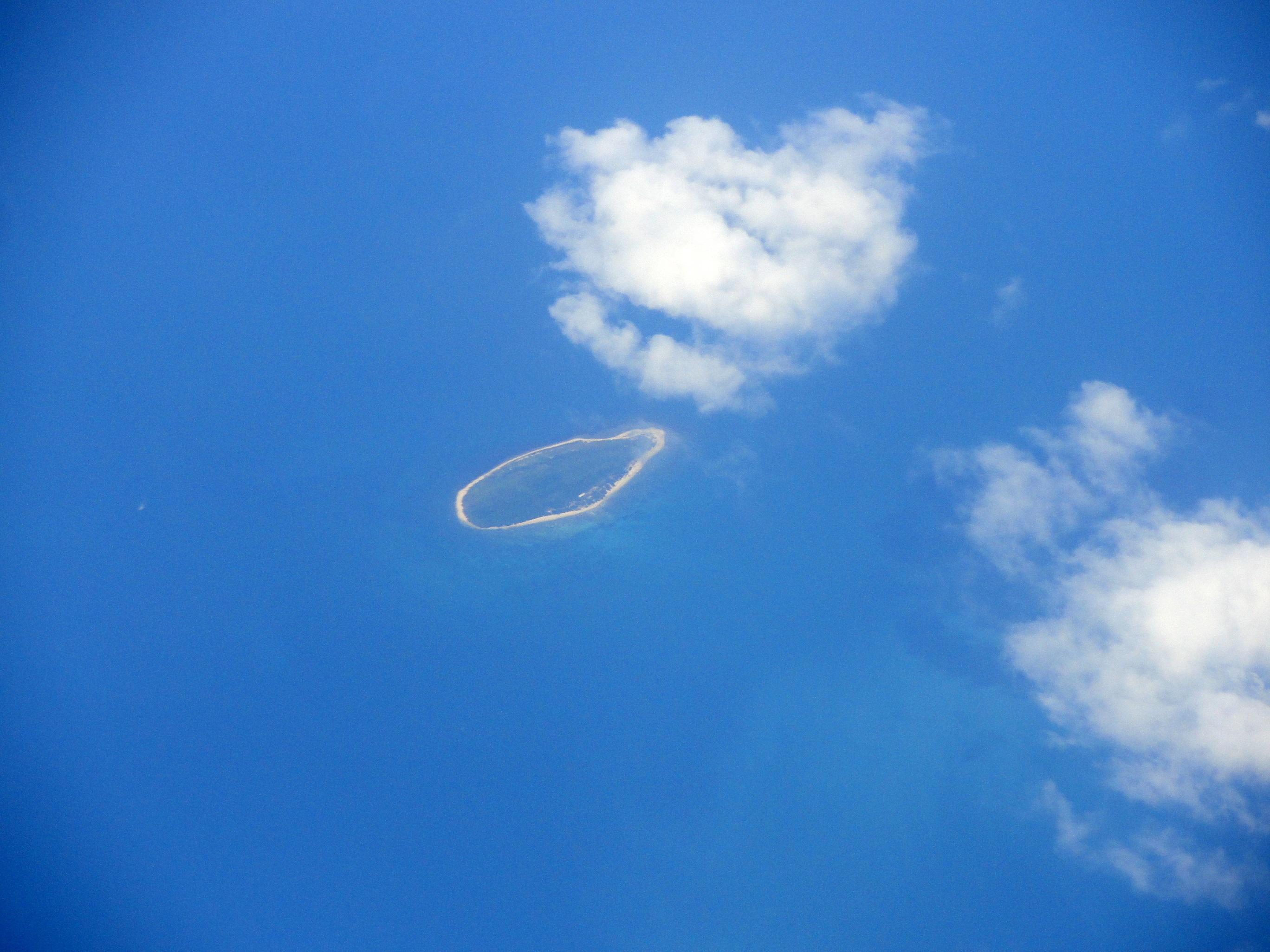 Kakaraitivu Island, Jaffna District, Sri Lanka.